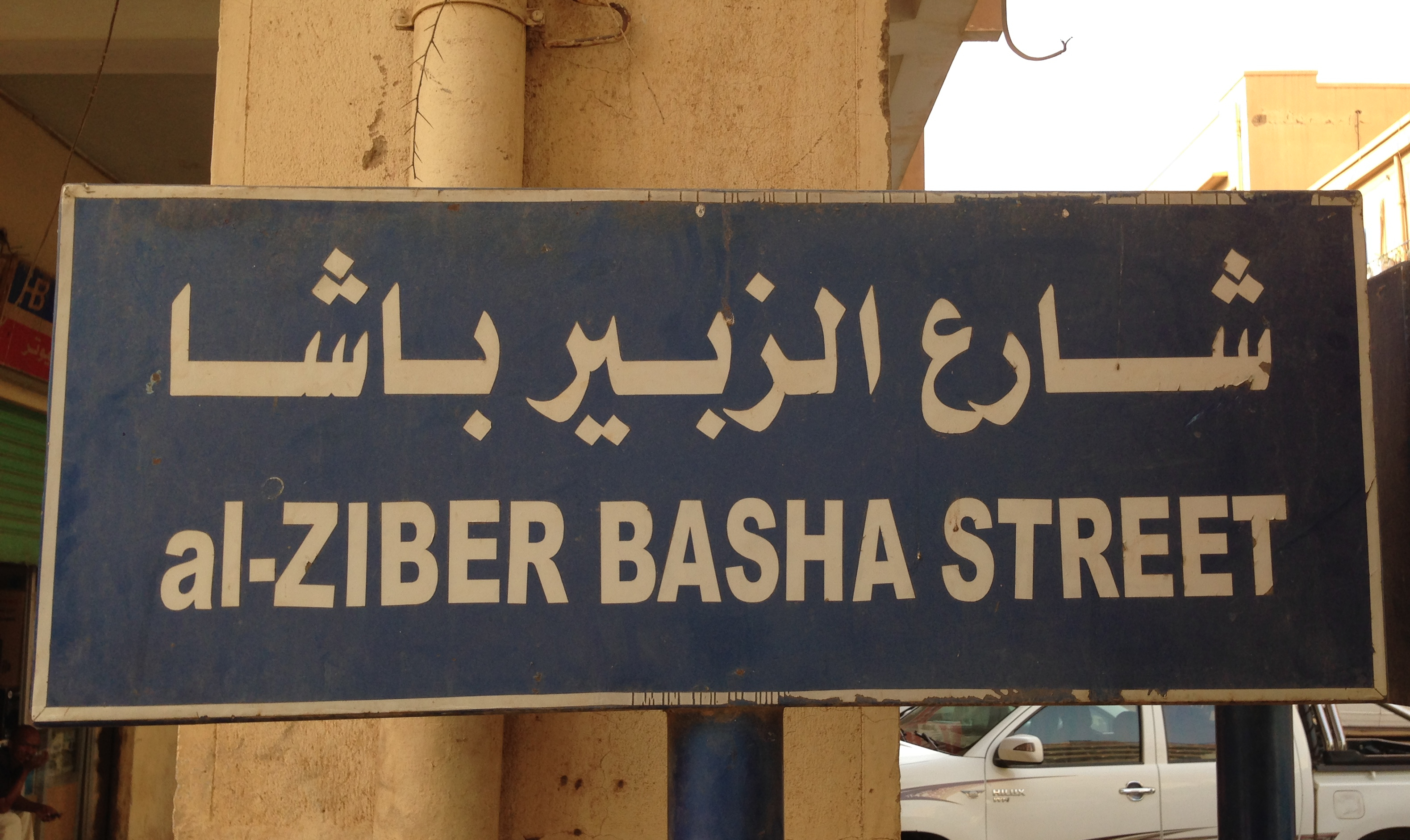 al-Ziber Basha Street in downtown Khartoum, Sudan, corner Babiker Badri Street, opposite the Acropole Hotel, named after Al-Zubayr Rahma Mansur, a major slave-trader in the 19th century, who set up his own kingdom in Southern Sudanese Bahr El Ghazal and conquered Darfur.